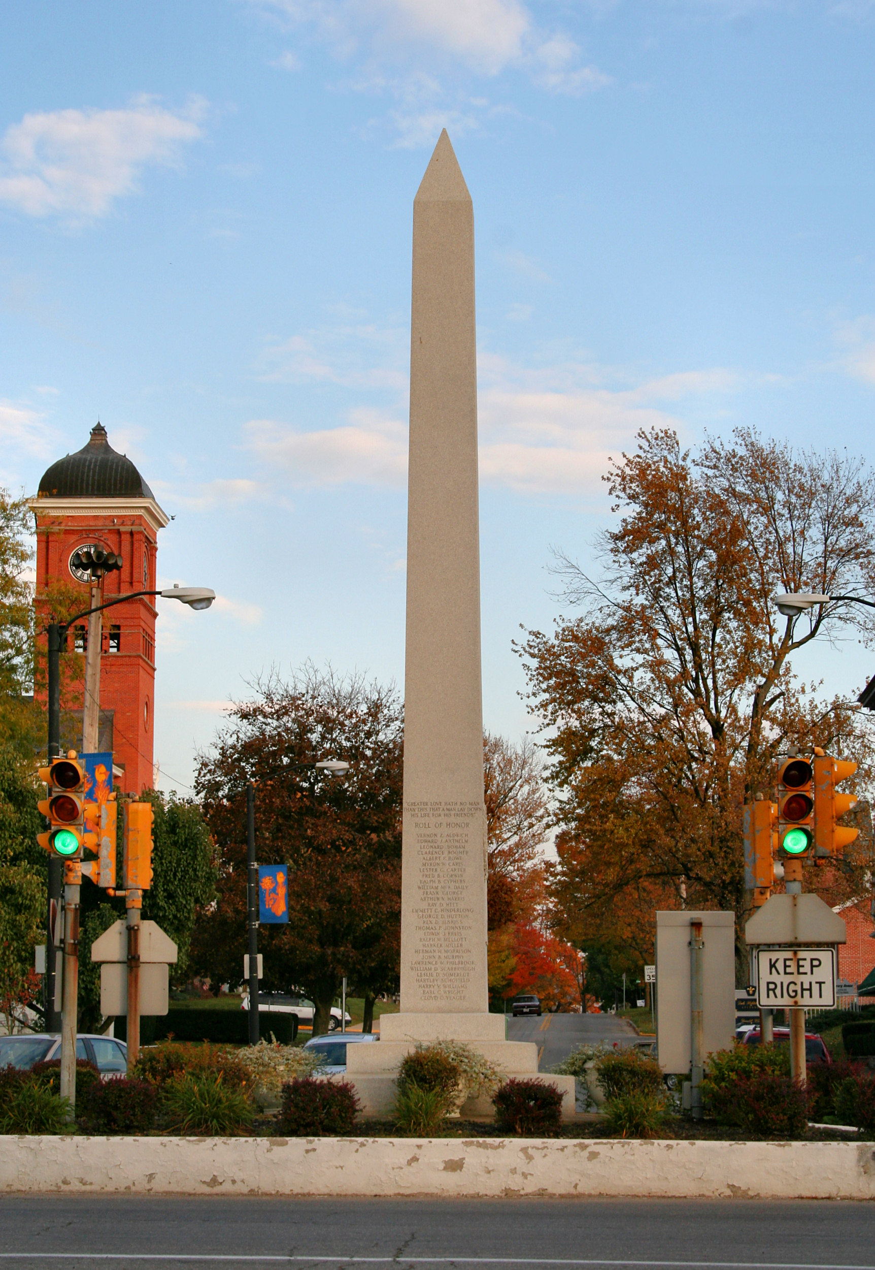 Victory Memorial Shaft traffic circle in Mount Gilead, Ohio. Photo shot by Derek Jensen (Tysto), 2005-October-31